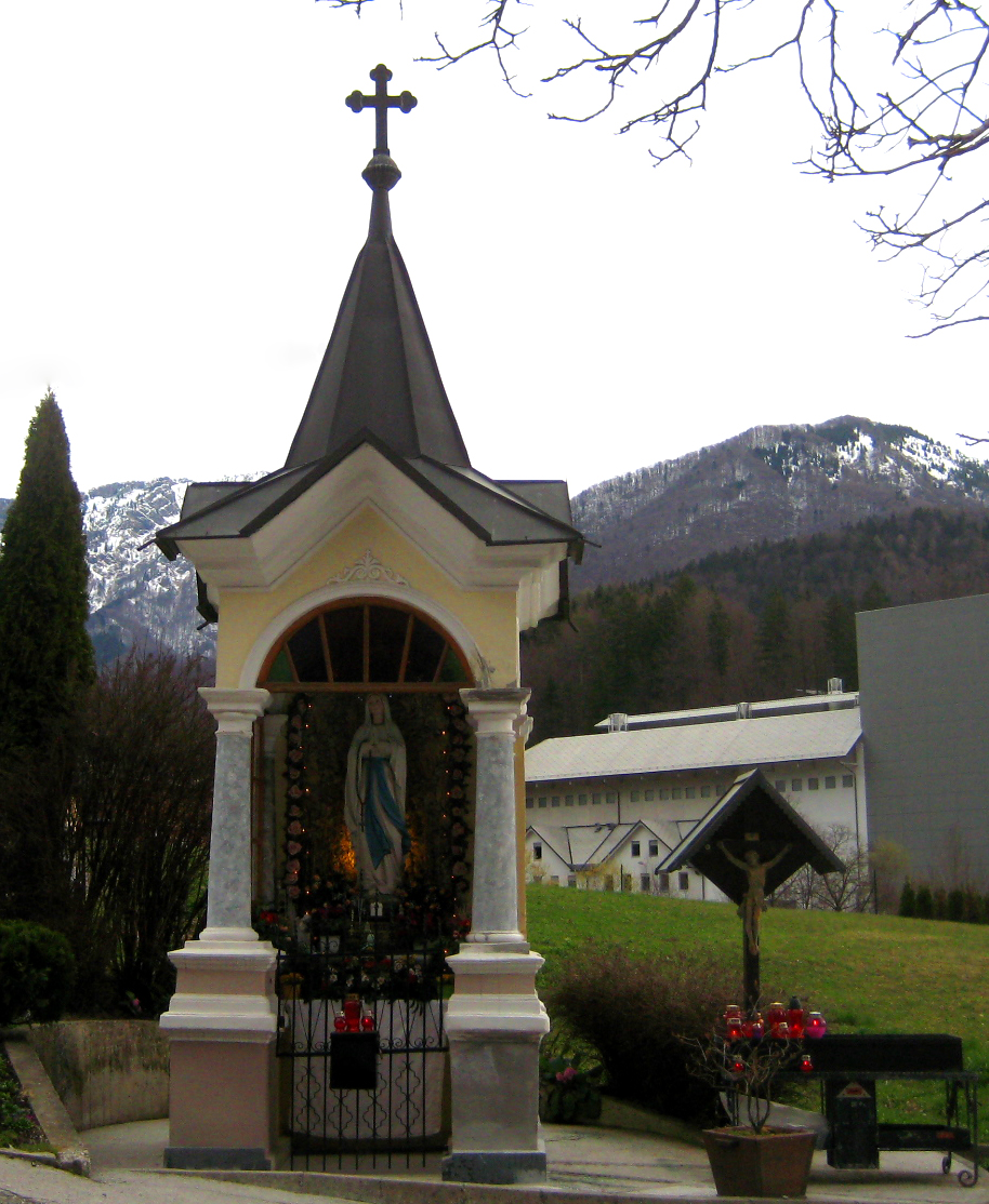 Stahovica, famous st. Mary chapell (Slovenia)